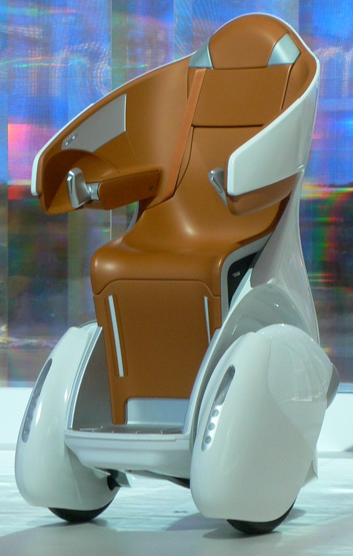 Toyota i-Real photographed in Tokyo Motor Show 2007